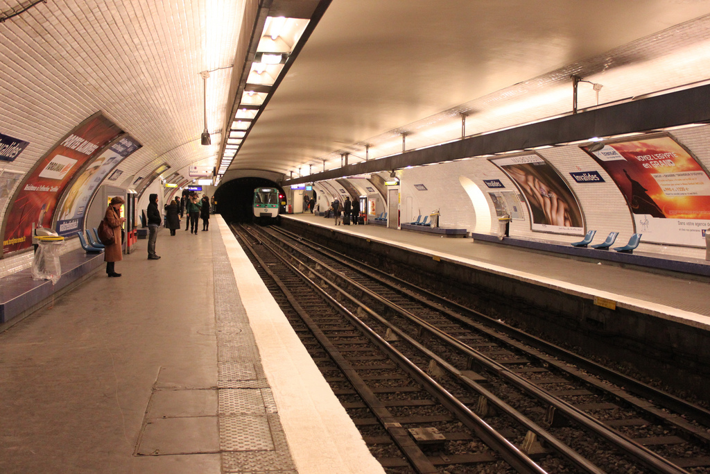 Global view of Invalides Paris metro station on line 8.